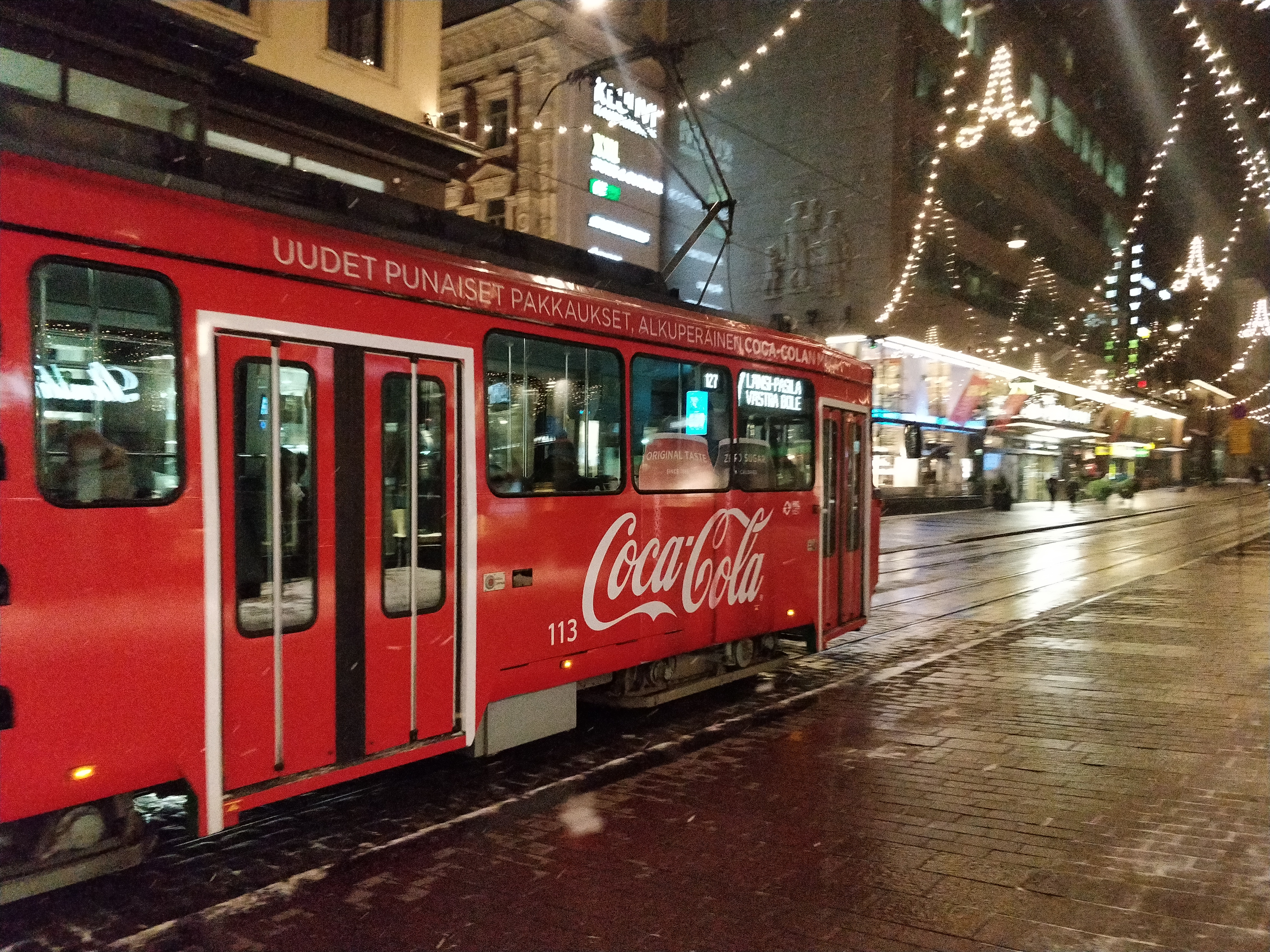 Coca-Cola tram in Helsinki